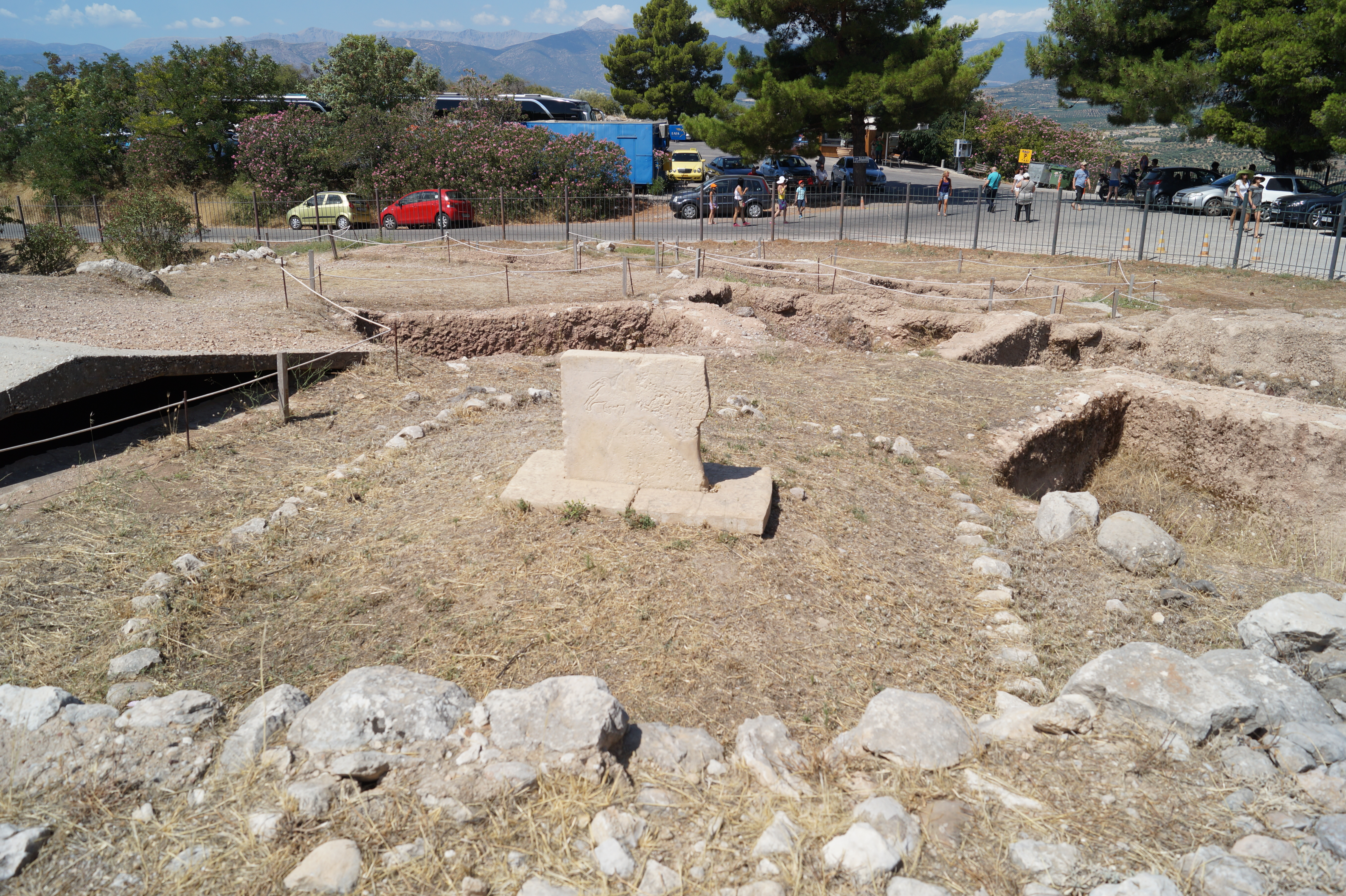 Mycenae, grave circle B: Reconstructed mound and stela on grave Α (Alpha).